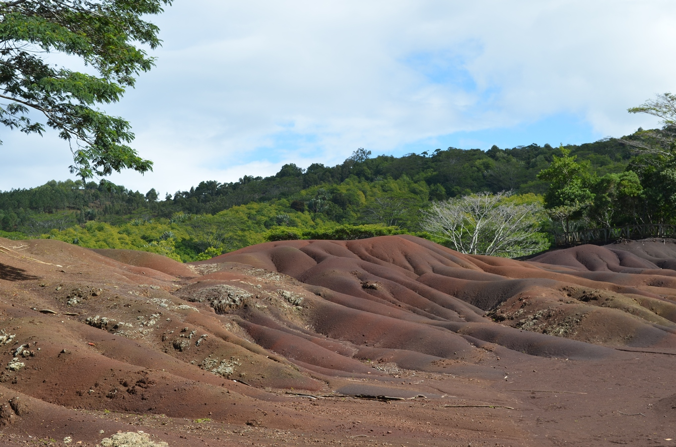 Seven Coloured Earths in Mauritius